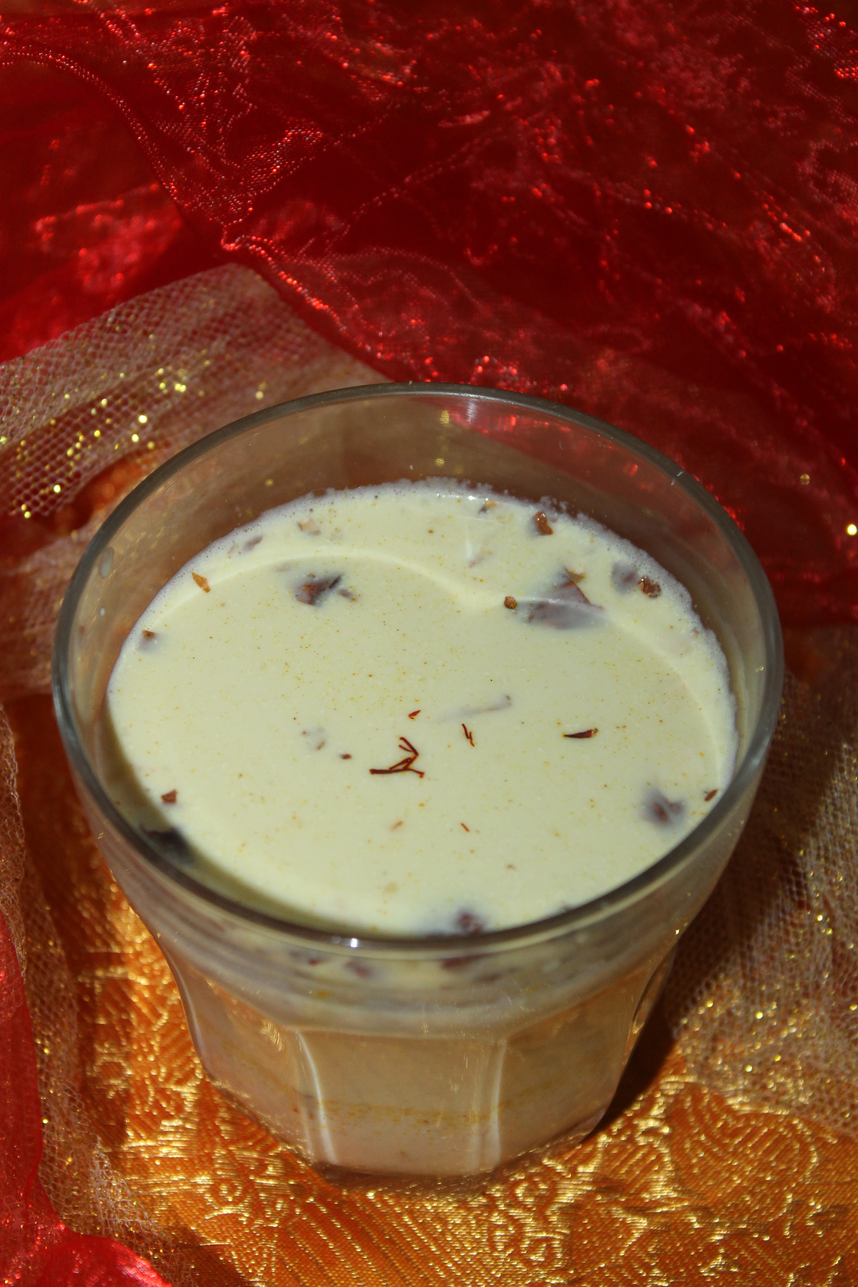 A refreshing drink made with almonds, sugar and some spices.